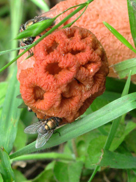 Close-up of the cap of the fungus Lysurus periphragmoides (Klotzsch) Dring. Specimen photographed in San Marcos, Texas, USA.